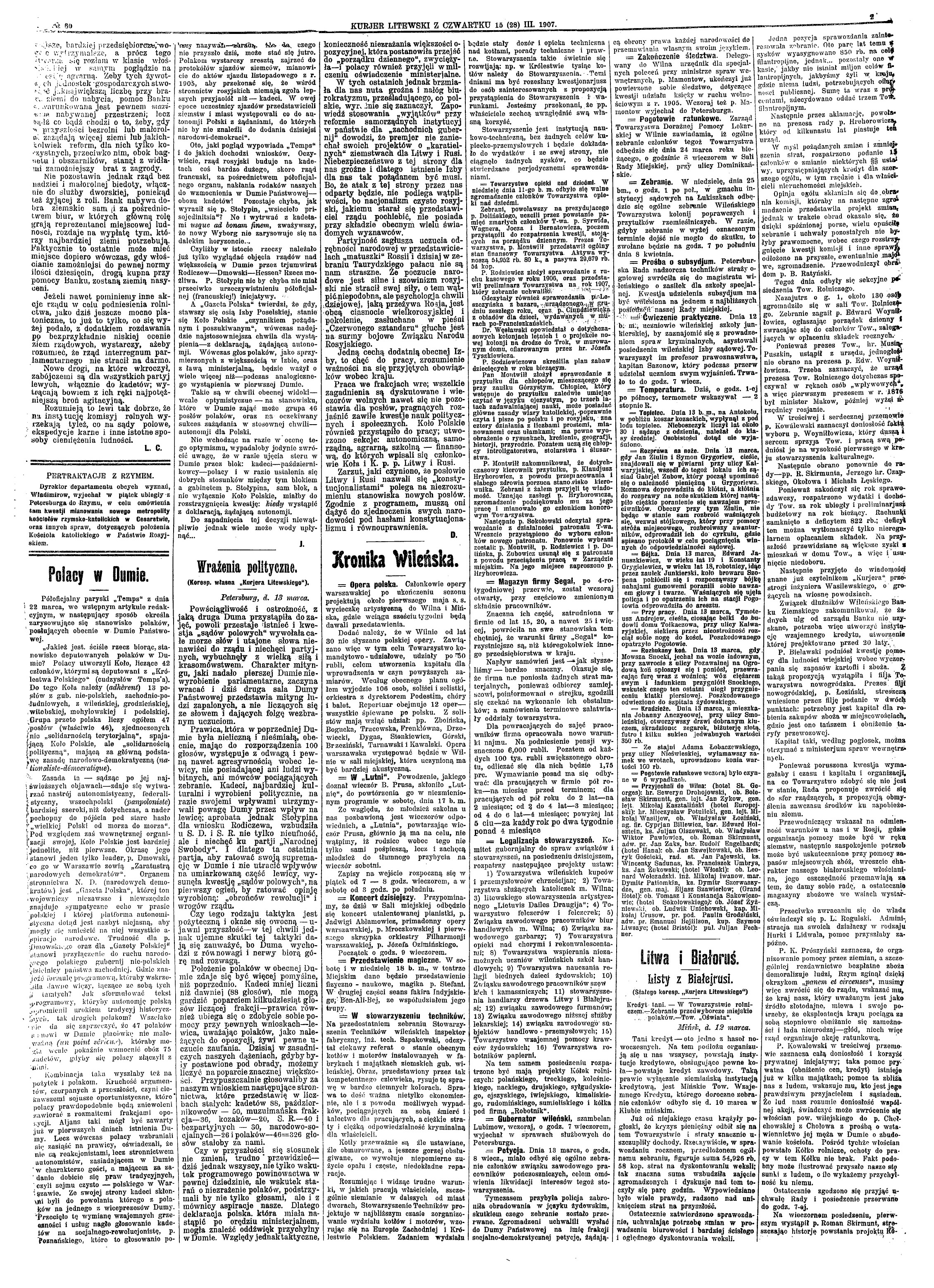 second page of newspaper "Kuryer Litewski" (#60, 1907 AD), Russian empire